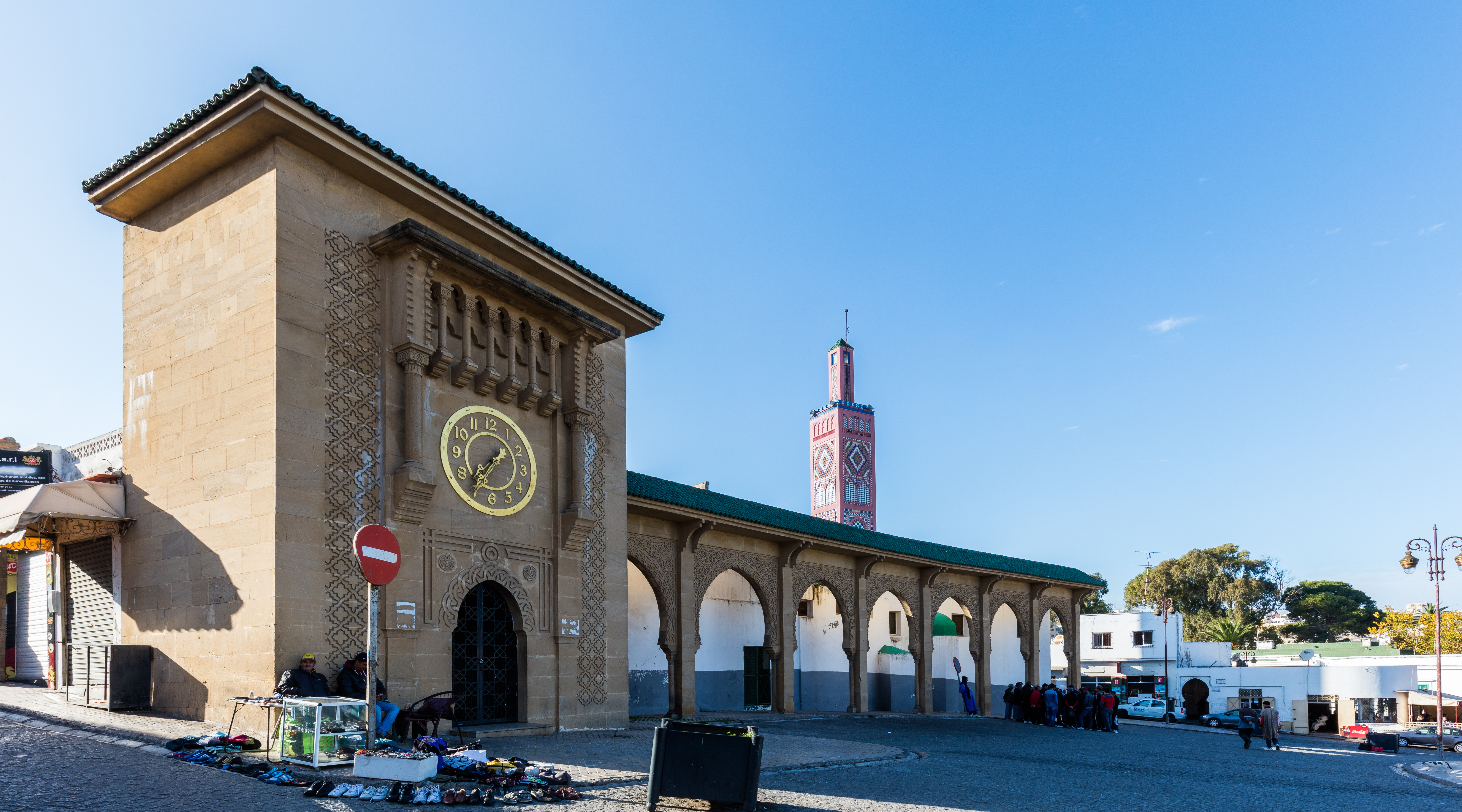 April 9th 1947 Square, Tangier, Morocco